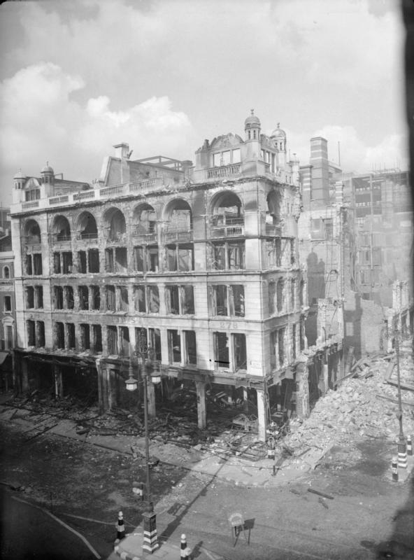 Bombs Hit London Stores- Air Raid Damage in London, England, 1940 A wide view of the bomb-damaged shell of the John Lewis department store on London's Oxford Street, following an air raid in September 1940.